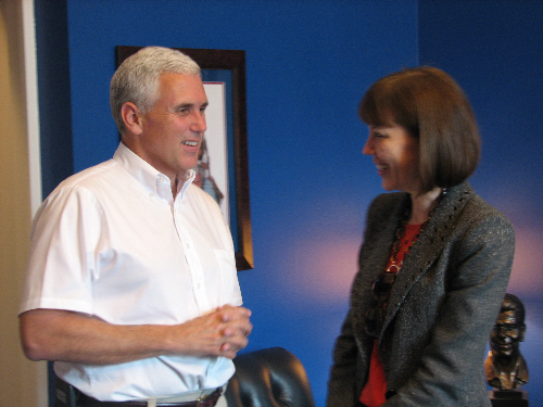 Congressman Mike Pence discusses the importance of his proposed Free Flow of Information Act with New York Times reporter Judith Miller. October 2005.